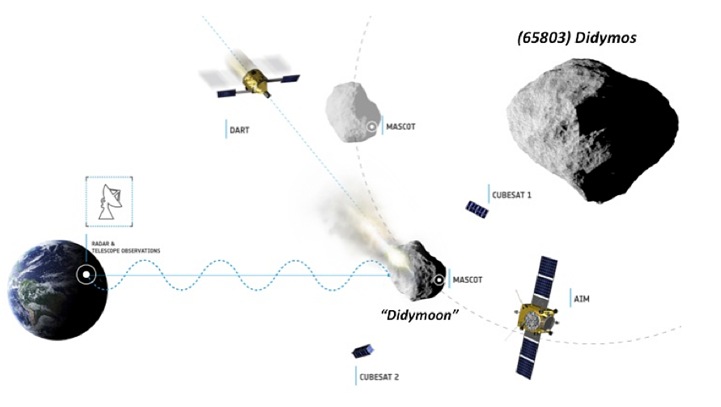 Schematic of the AIDA mission concept shows ESA’s AIM spacecraft in orbit about the binary asteroid (65803) Didymos. AIM would arrive several months before NASA’s DART would impact Didymos’ smaller companion. Post-impact observations from both the AIM spacecraft and Earth-based planetary radar would, in turn, measure the change in the moonlet’s orbit about the parent body.